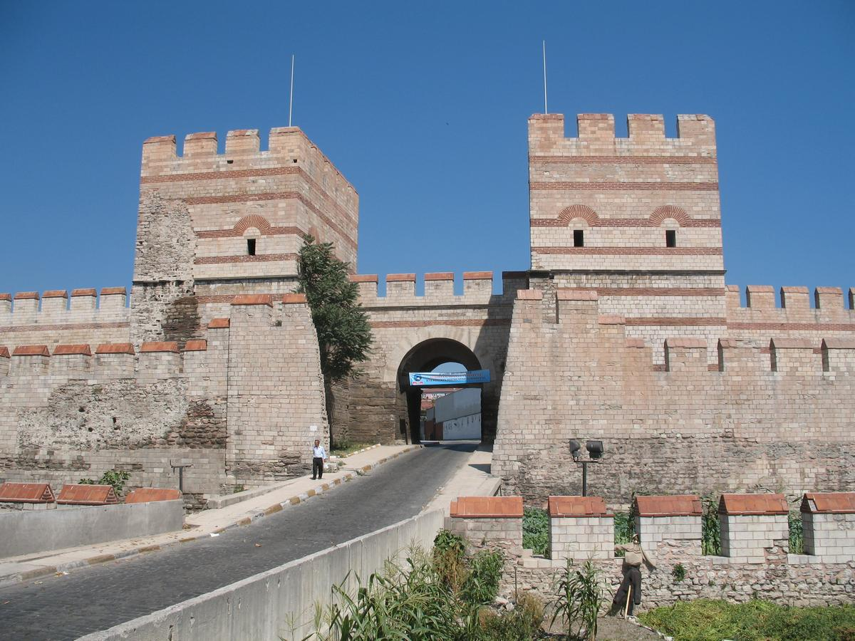 The Theodosian Walls in Constantinople. Second military gate(Deuterou or Belgrade gate).